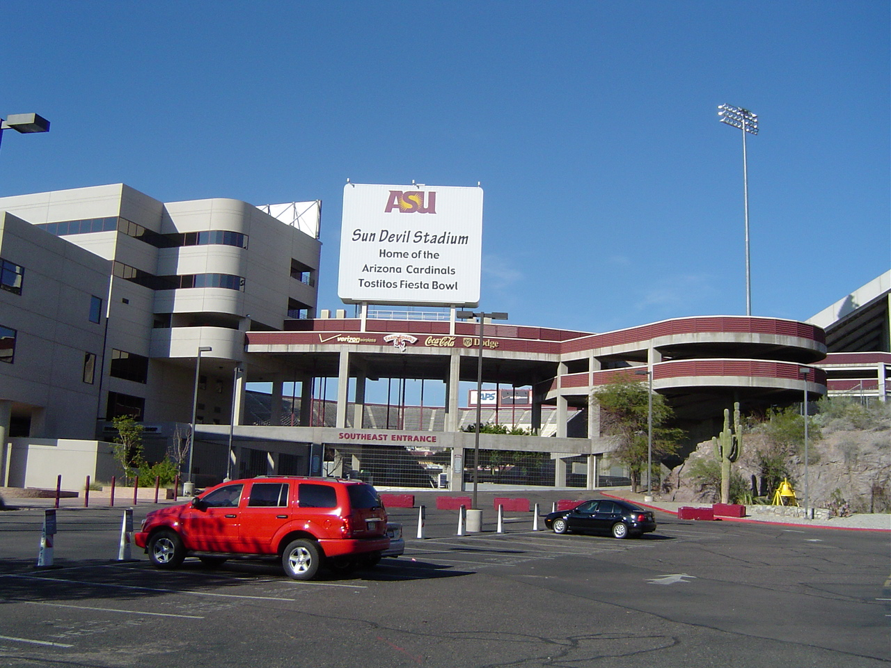 Sun Devil Stadium in Tempe, Arizona, host of the Fiesta Bowl until 2006 and now host of the Insight Bowl